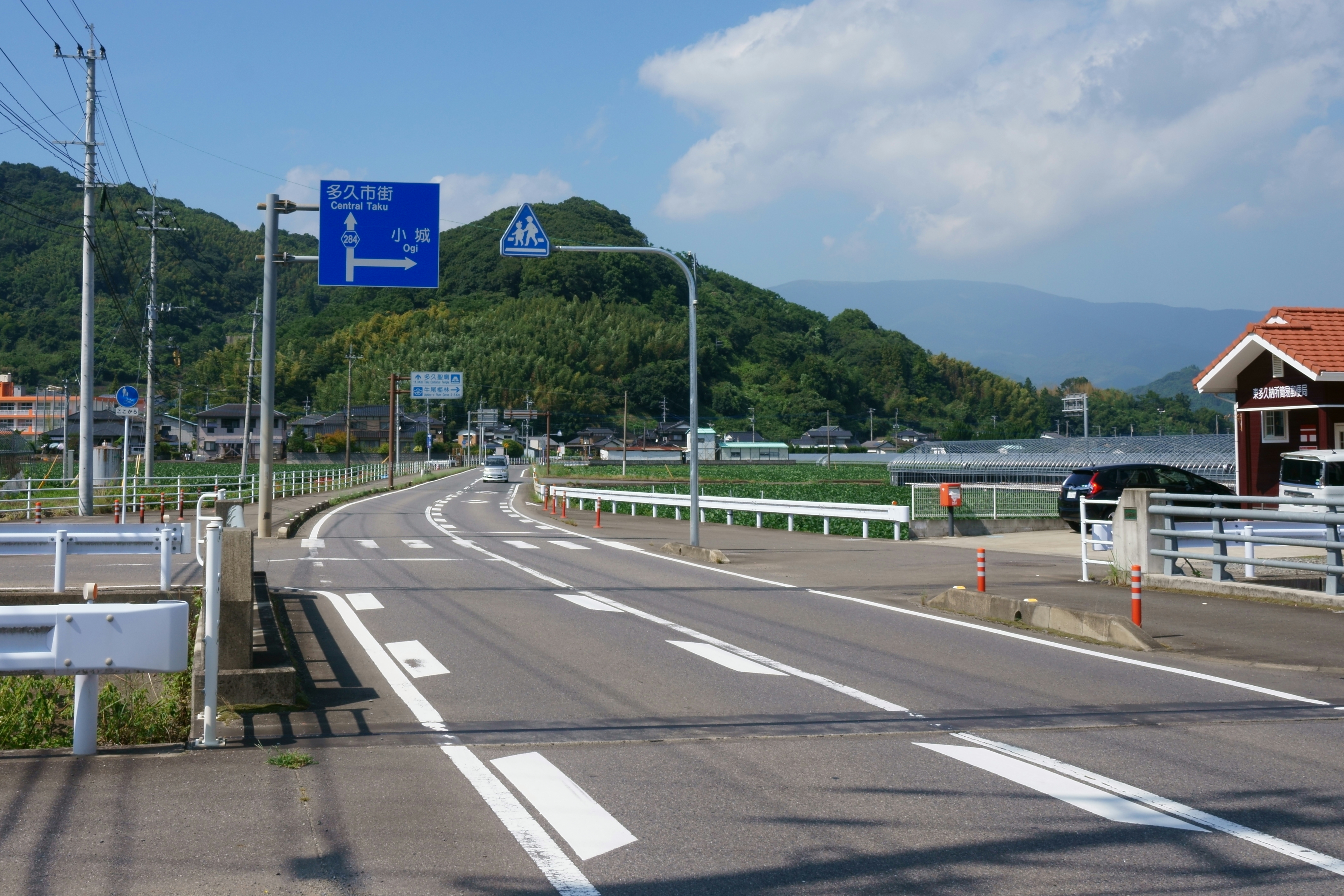 Saga Prefectural Road No.284 in Higashitaku-machi Nōso, Taku city.